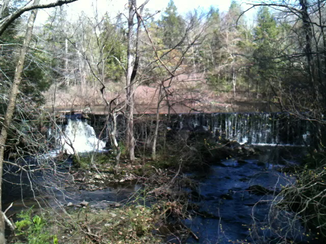 Aspetuck Valley Trail. Blue-Blazed CFPA foot path in Connecticut Centennial Watershed State Forest which connects to Huntington State Park at the northern terminus and which follows the Aspetuck River from Newtown, CT through Redding and Easton, CT. Hedmons Pond waterfall from Aspetuck Valley Trail (Stepney Road walk). Blue-Blazed CFPA foot path in Connecticut Centennial Watershed State Forest which connects to Huntington State Park at the northern terminus and which follows the Aspetuck River from Newtown, CT through Redding and Easton, CT.